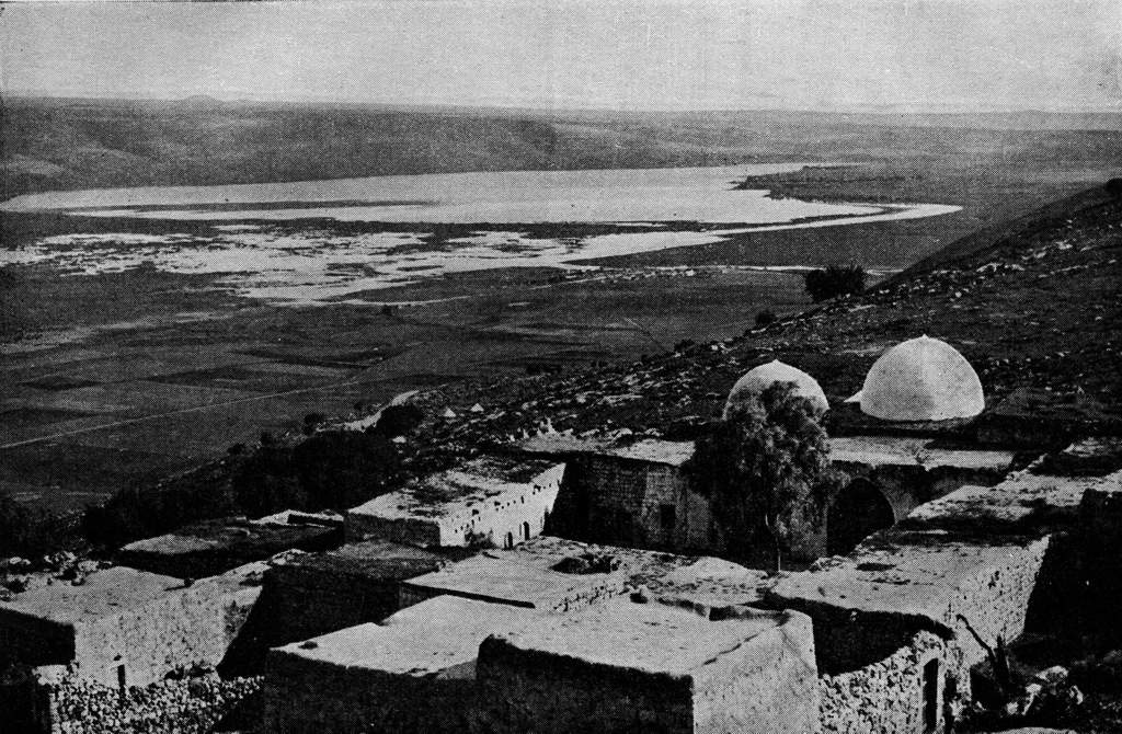 Hula from Nabi Yehoshua